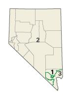 Image adapted from US fed gov't source Category:Congressional districts of Nevada